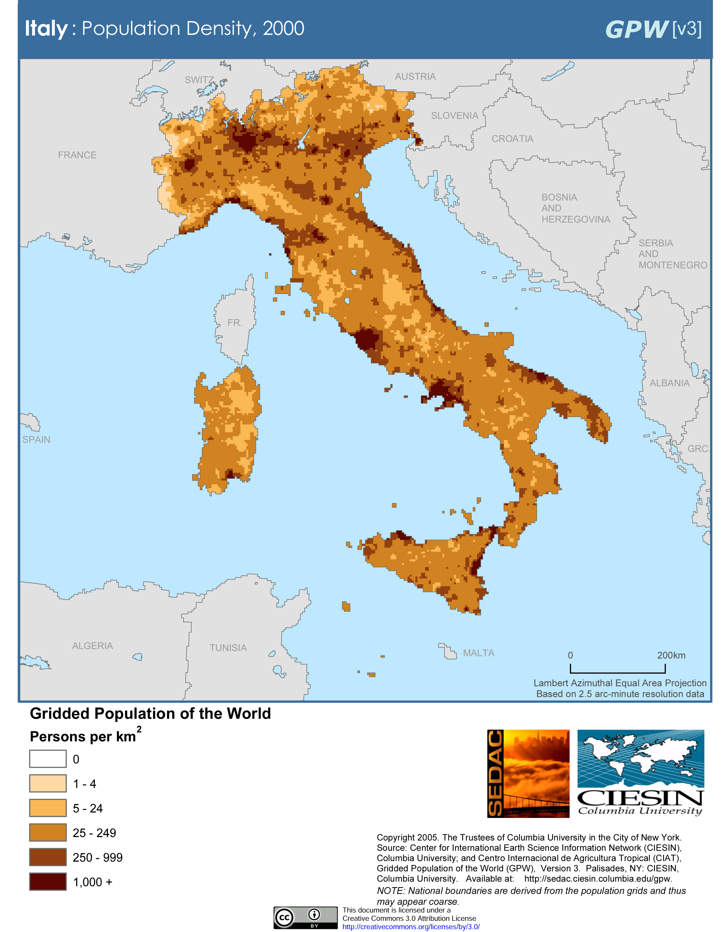 Map showing the population density in Italy in the year 2000.